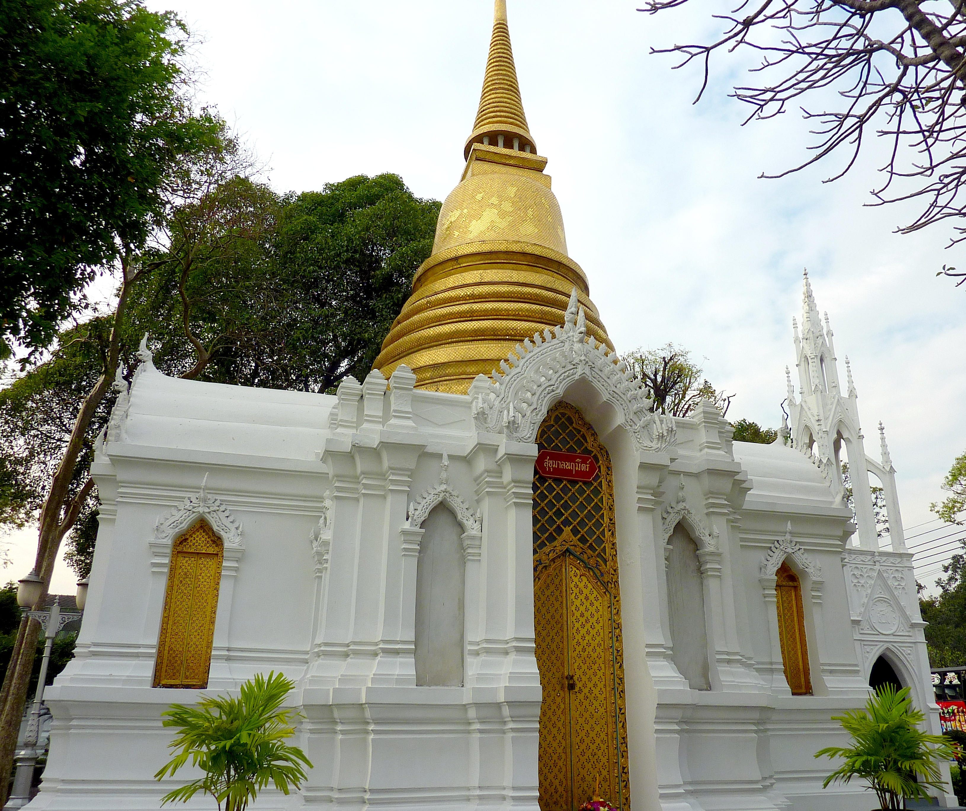 29 Cemetery Building, Wat Ratchabophit, Bangkok